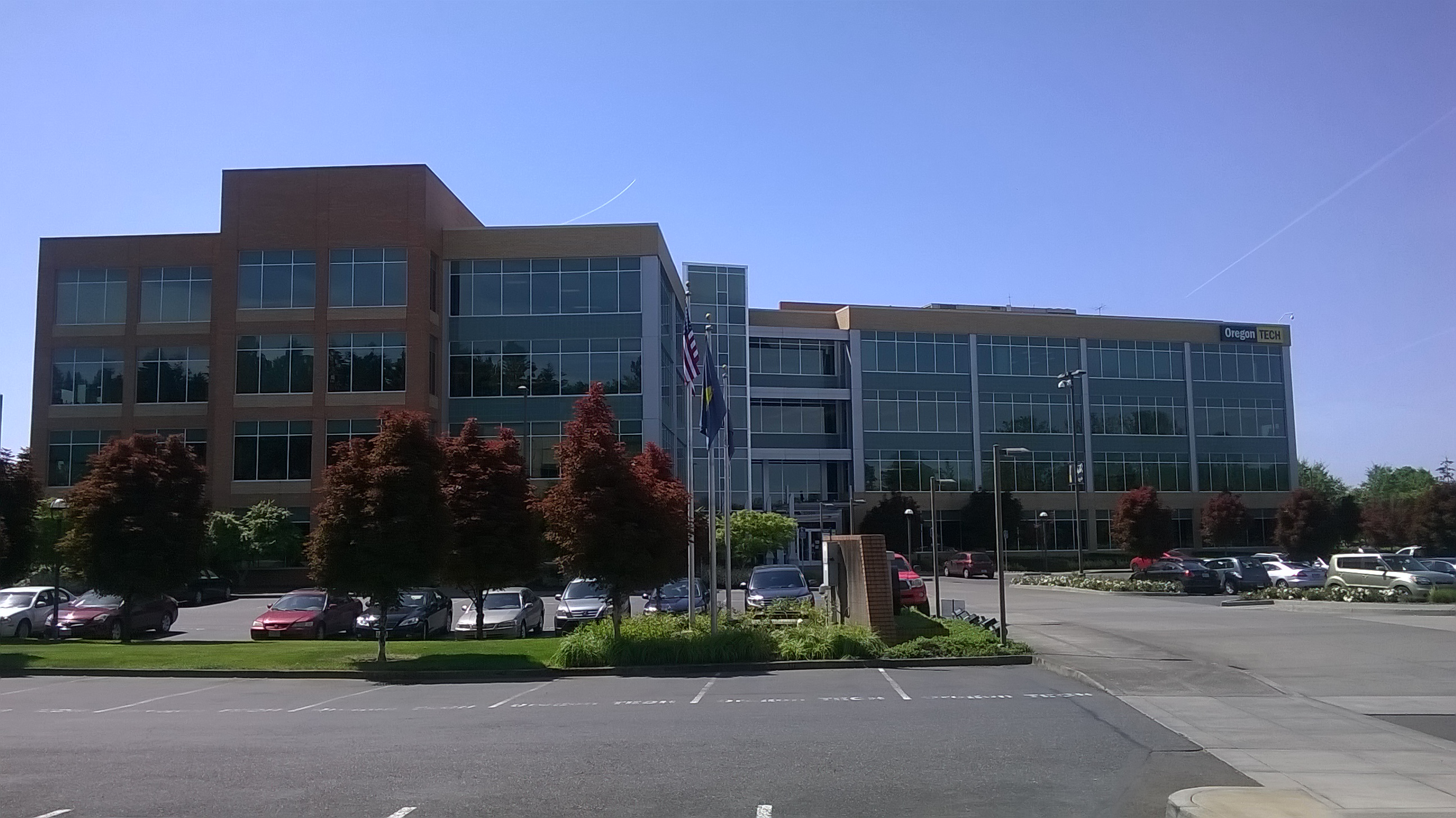 A view from outside the Oregon Tech Wilsonville campus showing the intersection of the building's two wings.